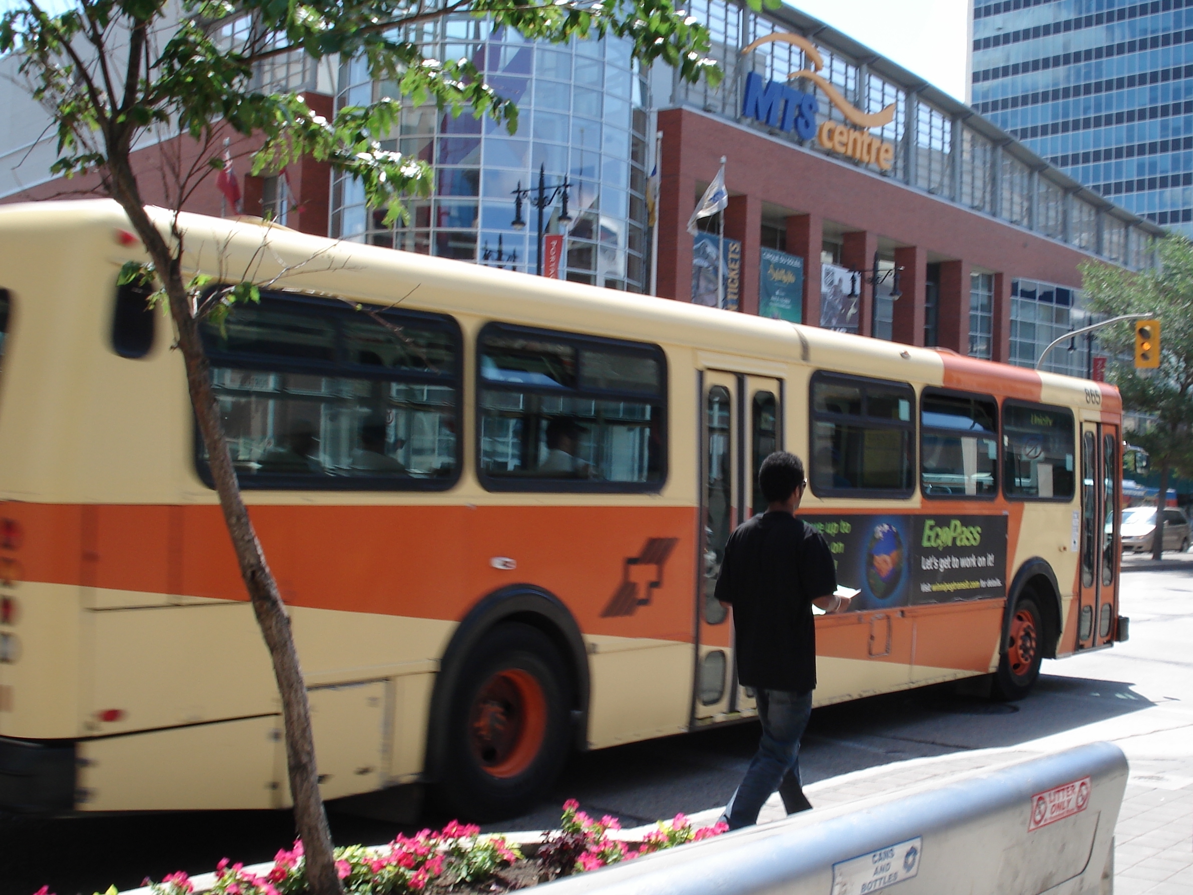 Winnipeg Transit bus 865 at the MTS Centre